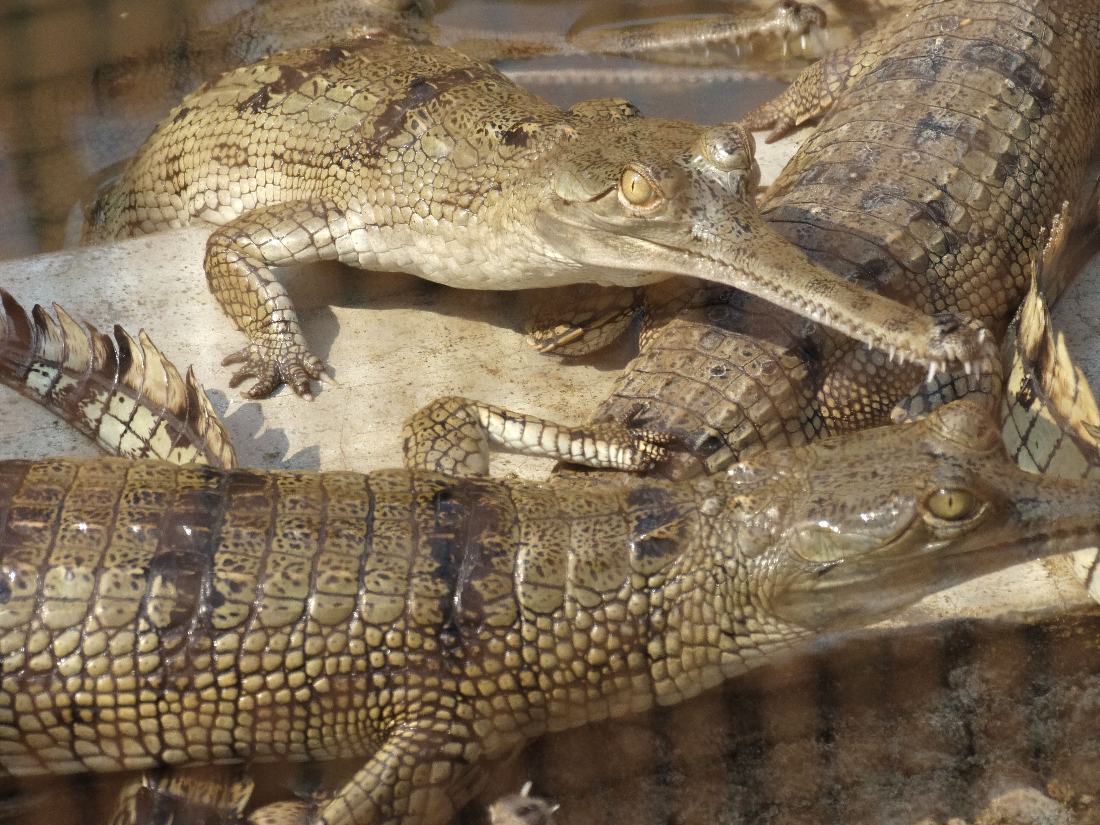 Gharial Crocodiles - Conservation Breeding Center - Kasara - Chitwan National Park - Nepal - 01